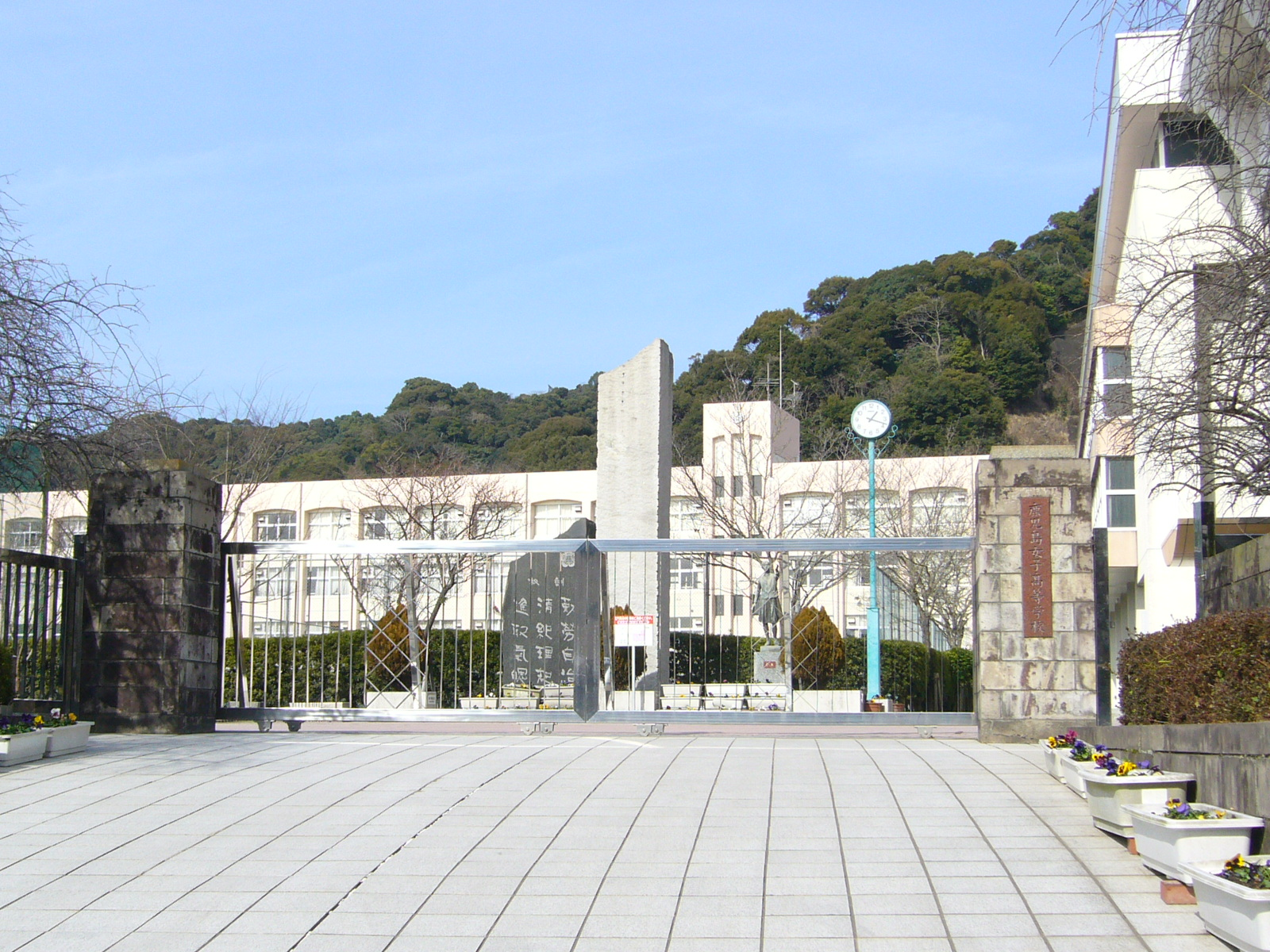 kagoshima-girls's-senior-high-school